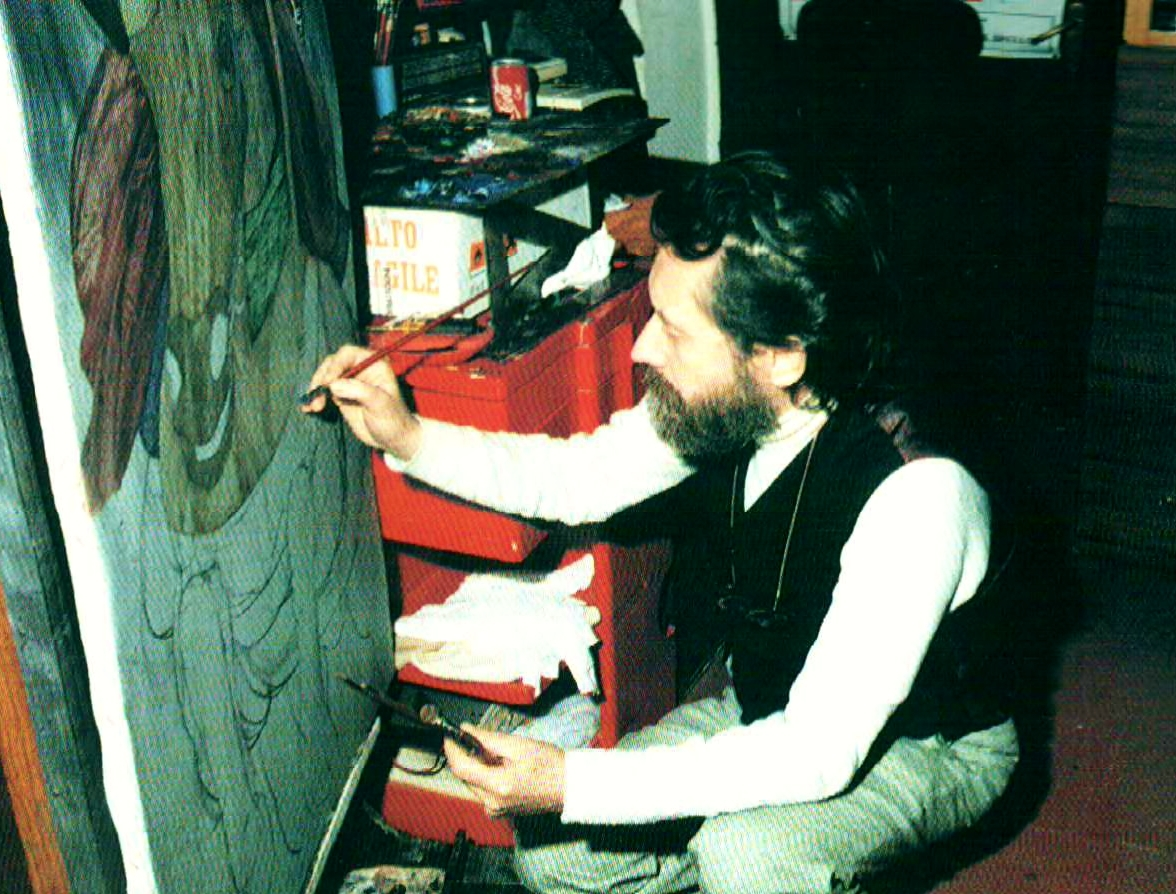 The painter Franco Venanti of Perugia (Italy) who paints one of his works.